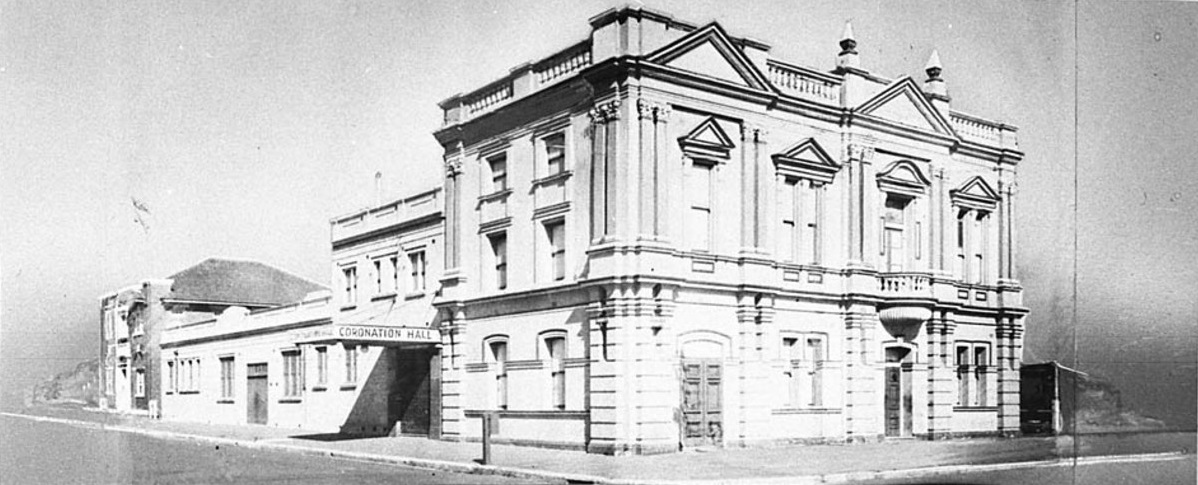 Mascot Town Hall (taken for Mascot Council)